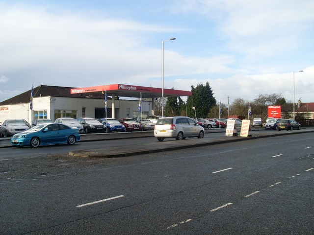 Hillington Trade Centre Used car sales.